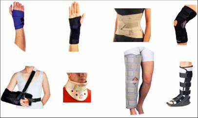 Picture retresenting several Orthotics products.